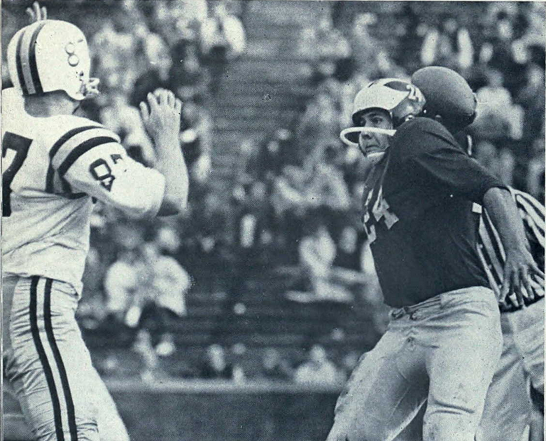 Photograph of Dave Glinka during the 1960 Michigan-Minnesotagame This work is in the public domain because it was published in the United States between 1923 and 1963 and although there may or may not have been a copyright notice, the copyright was not renewed. Unless its author has been dead for the required period, it is copyrighted in the countries or areas that do not apply the rule of the shorter term for US works, such as Canada (50 pma), Mainland China (50 pma, not Hong Kong or Macao), Germany (70 pma), Mexico (100 pma), Switzerland (70 pma), and other countries with individual treaties. See Commons:Hirtle chart for further explanation. This work is in the public domain in the United States because it was published in the United States between 1923 and 1977 without a copyright notice. See this page for further explanation. Note that it may still be copyrighted in jurisdictions that do not apply the rule of the shorter term for US works (depending on the date of the author's death), such as Canada (50 p.m.a.), Mainland China (50 p.m.a., not Hong Kong or Macao), Germany (70 p.m.a.), Mexico (100 p.m.a.), Switzerland (70 p.m.a.), and other countries with individual treaties.